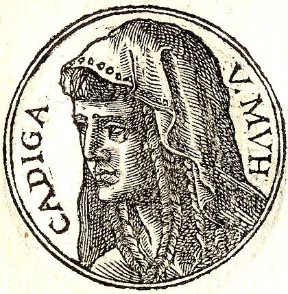 Khadijah bint Khuwaylid was the first wife of the Islamic prophet Muhammad.